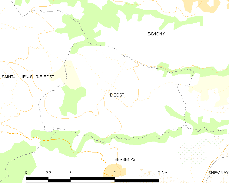 Map of French municipality